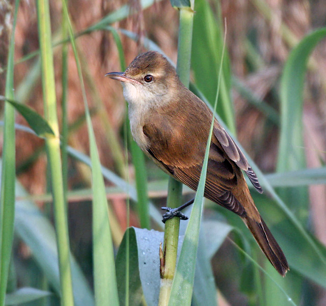 Oriental Reed Warbler Acrocephalus orientalis in Kolkata, West Bengal, India.